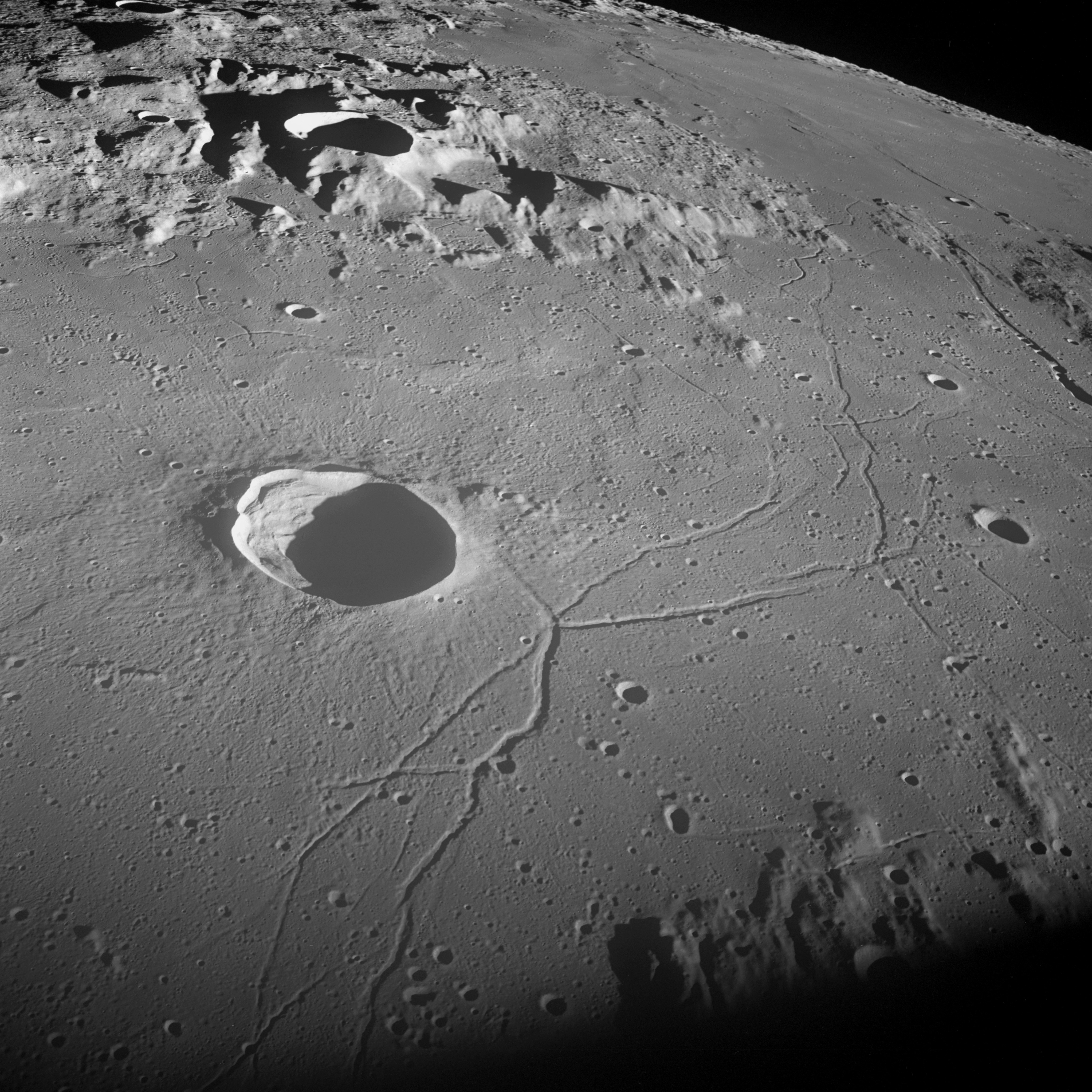 Oblique view of crater Triesnecker and Triesnecker rilles on the Moon.